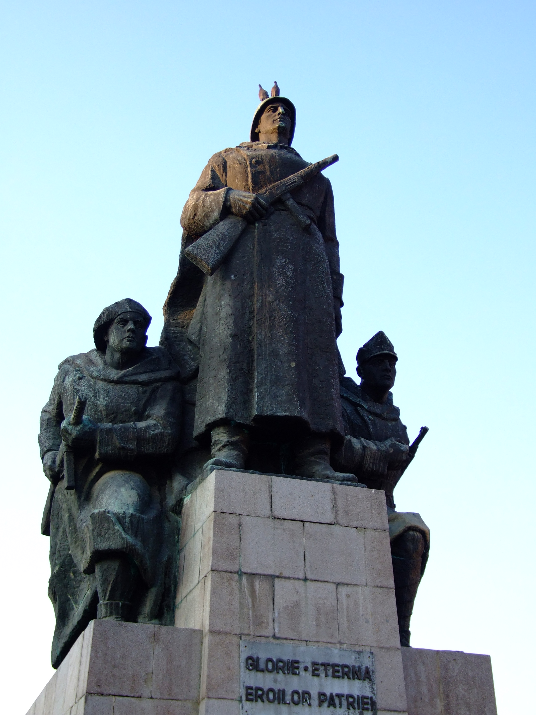 Monument in Arad, Romaniahelp